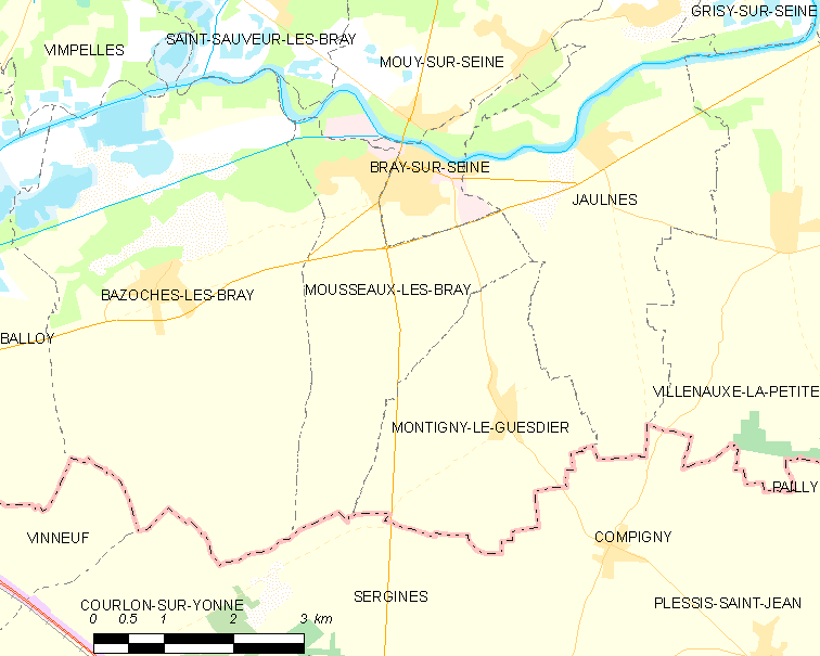 Map of French municipality Mousseaux-lès-Bray